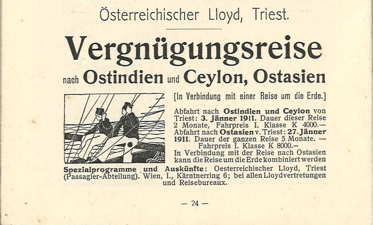 Advertizement for a trip around the world, Promotional brochure for ship pleasure cruises of the Austrian Lloyd (1910)